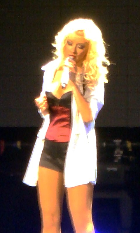 Christina Aguilera performing "Beautiful" at the Air Canada Centre in Toronto, Ontario, Canada